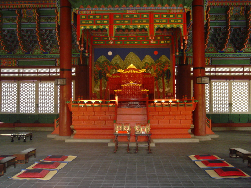 The throne room in Gyeongbokgung, Seoul, South Korea